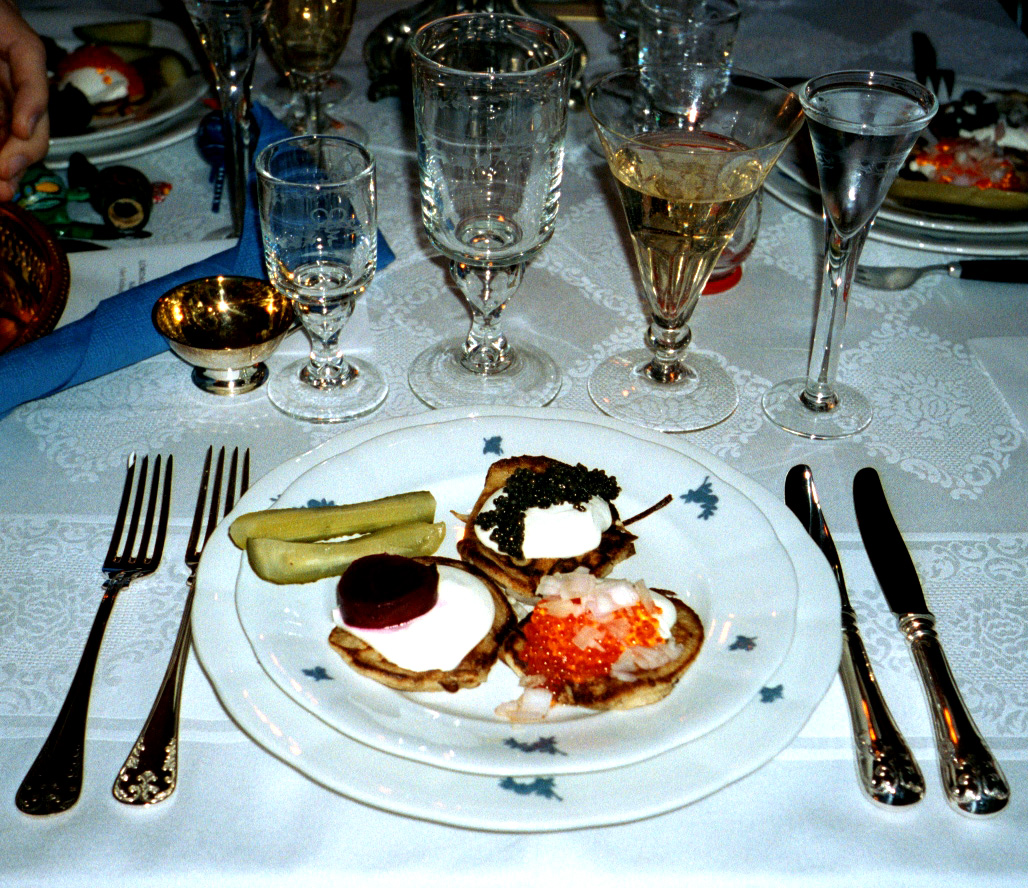 Russian blini served with sour cream, onion, caviar, pickled cucumbers, sweet champagne and vodka. Photographer: Fredrik Tersmeden (User:FredrikT), 2002.